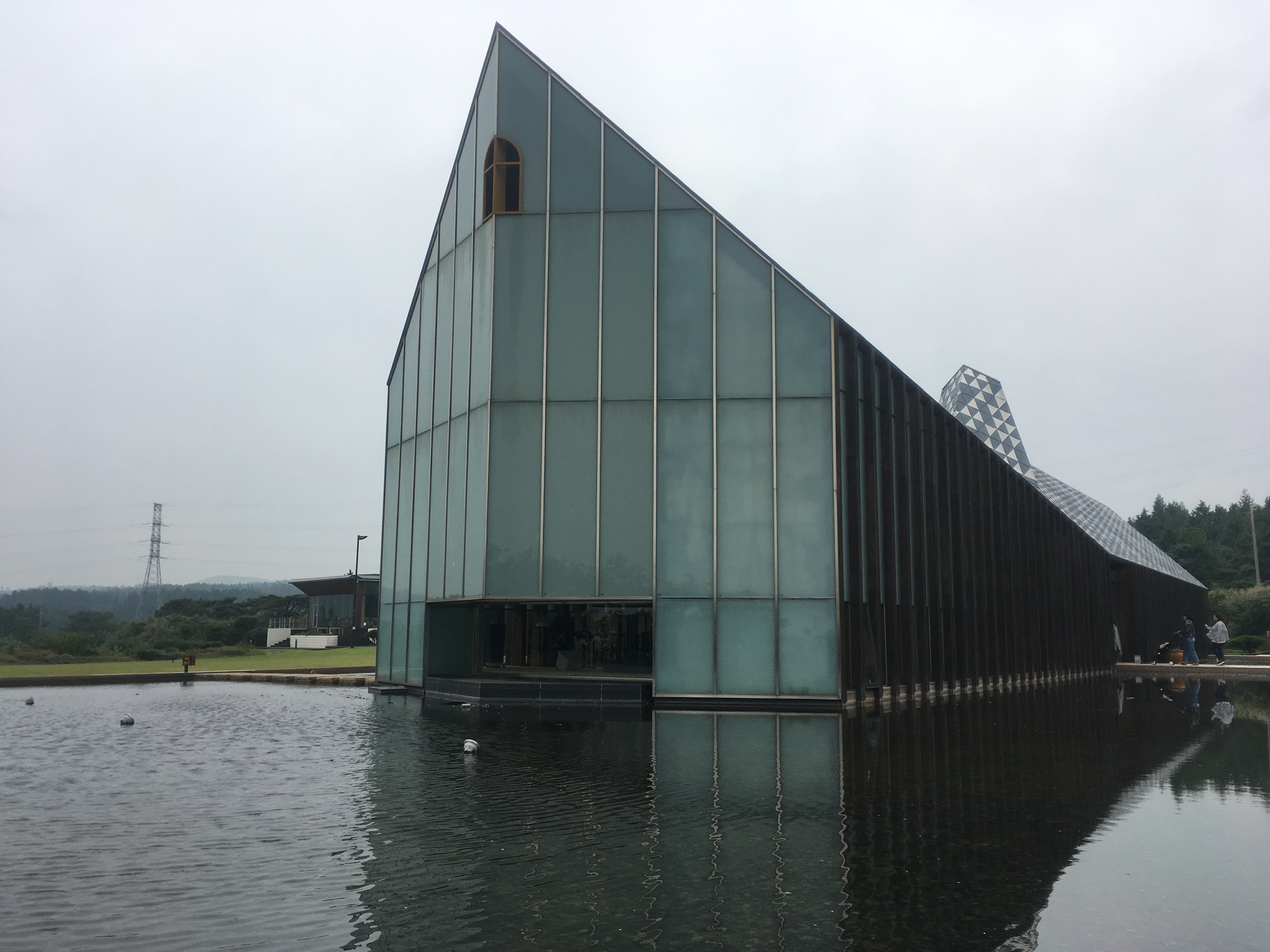 Bangju Church located in Seogwipo, southern part of Jeju Island.